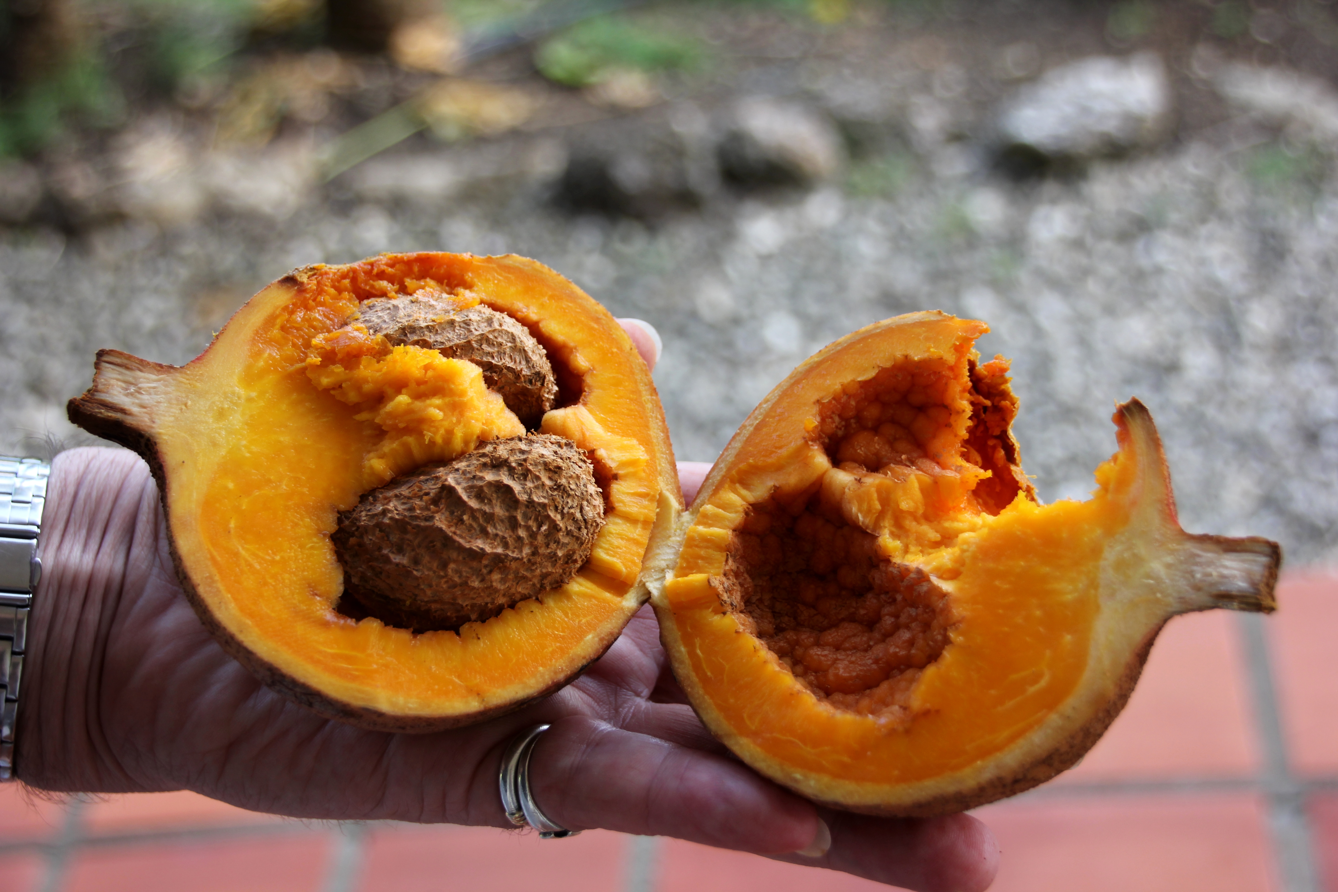 A Mammee apple in the Andromeda Gardens, Barbados.